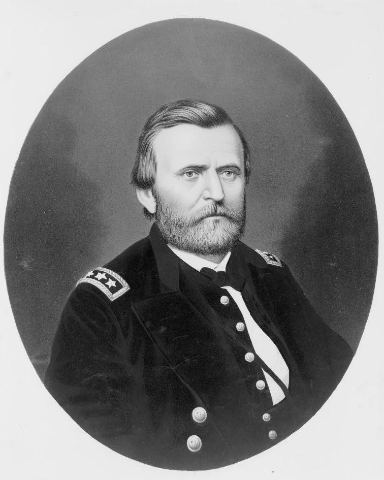 Portrait of LtGen. Ulysses S. Grant, officer of the Union Army